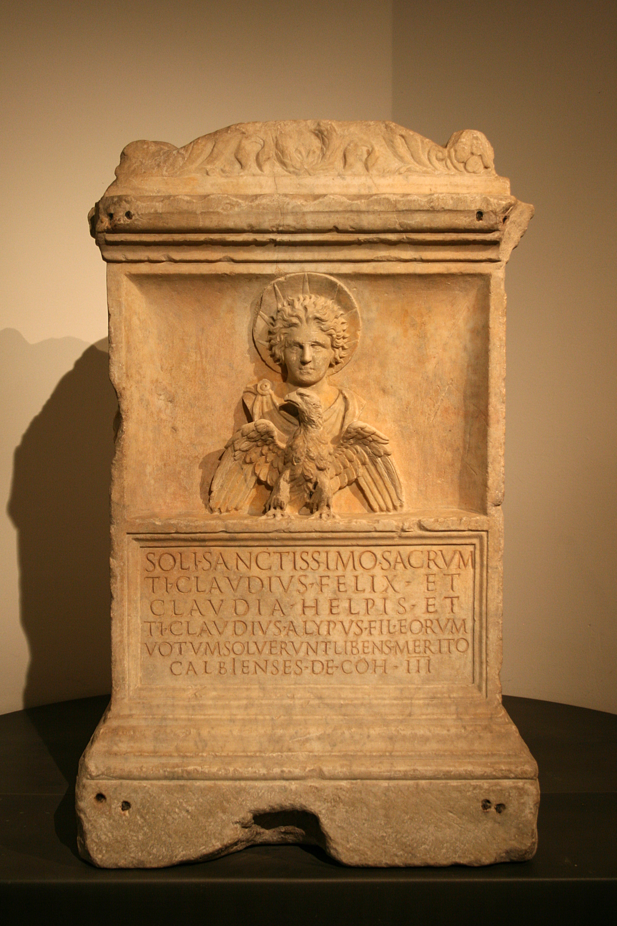 Altar dedicated to the god Malakbel (Sun) and the gods of Palmyra by Tiberius Claudius Felix, Claudia Helpis and their son, Tiberius Claudius Alypus, Marble, Roman artwork.